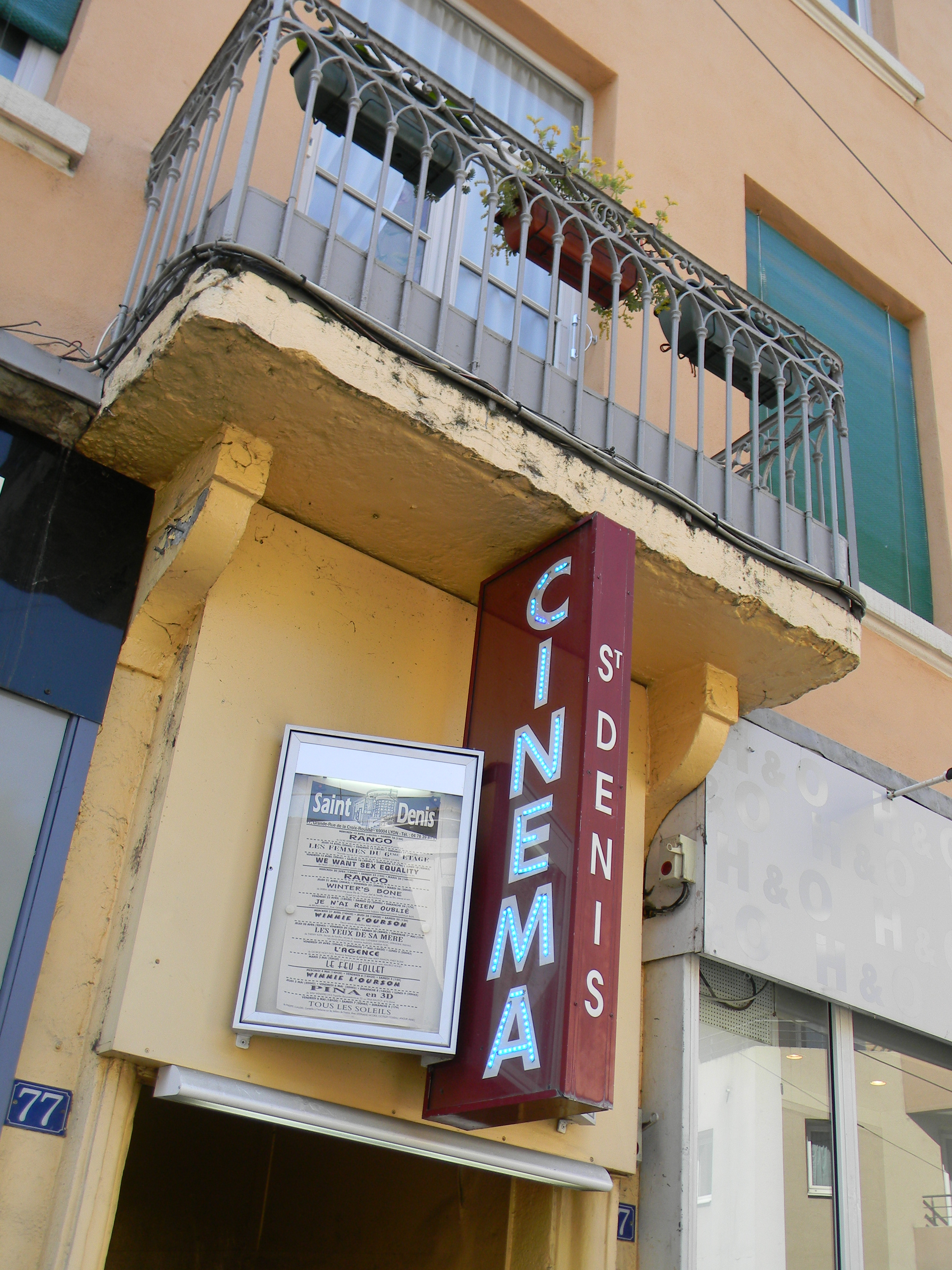 The Saint Denis Cinema in the Croix-Rousse district of Lyon